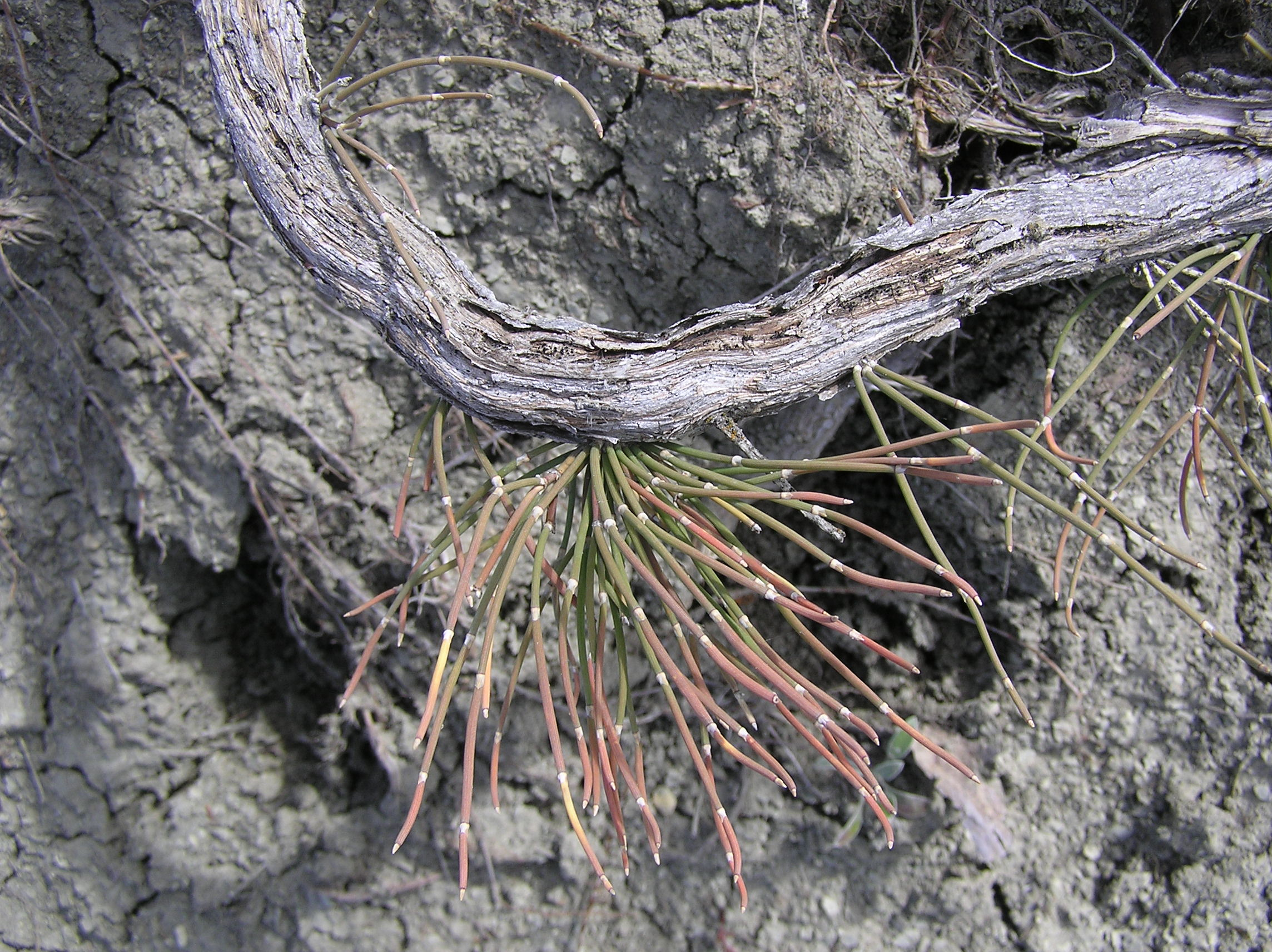 Ephedra distachya subsp. monostachya (L.) Riedl., rhizome exposed due to erosion. Habitat: southern chalk slope. Vicinity of Saratov city, Russia.